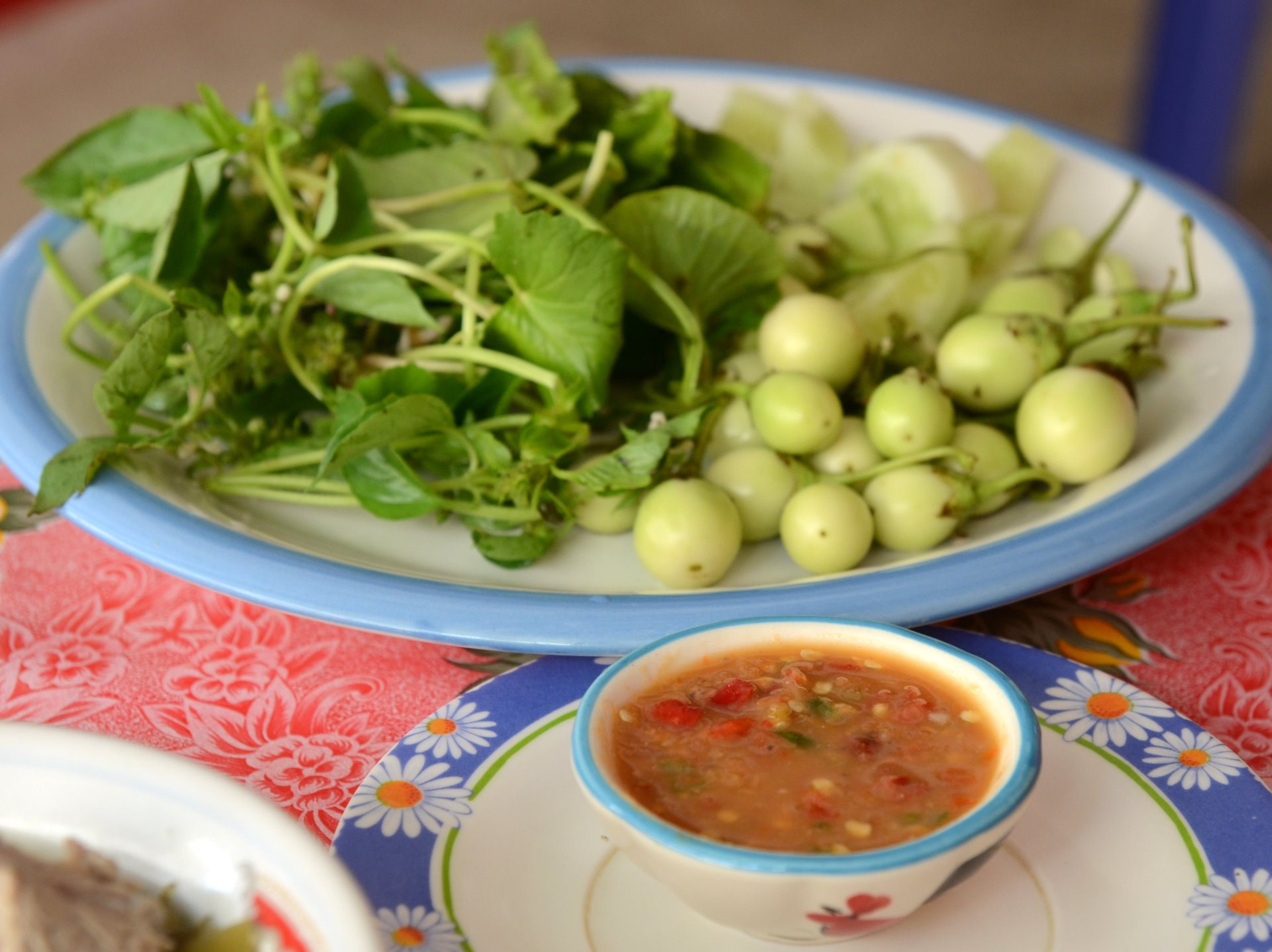 Nam phrik kapi (Thai script: น้ำพริกกะปิ): A dipping sauce made with shrimp paste, dried shrimp, garlic, bird's eye chillies, fish sauce, sugar and lime juice. Here it is served with raw vegetables.